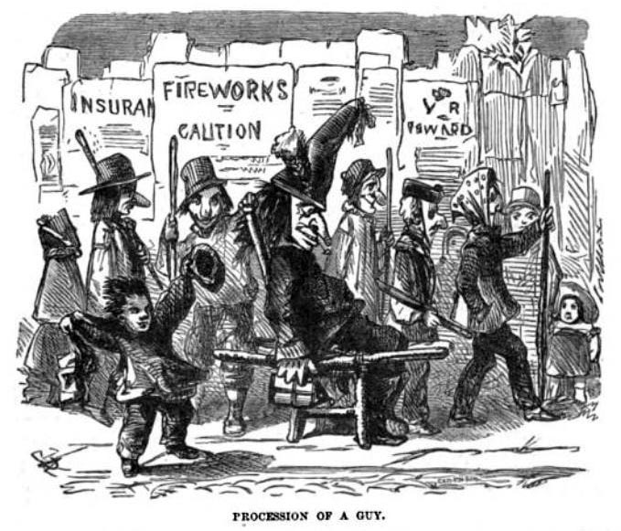 A procession of children, and a "Guy"